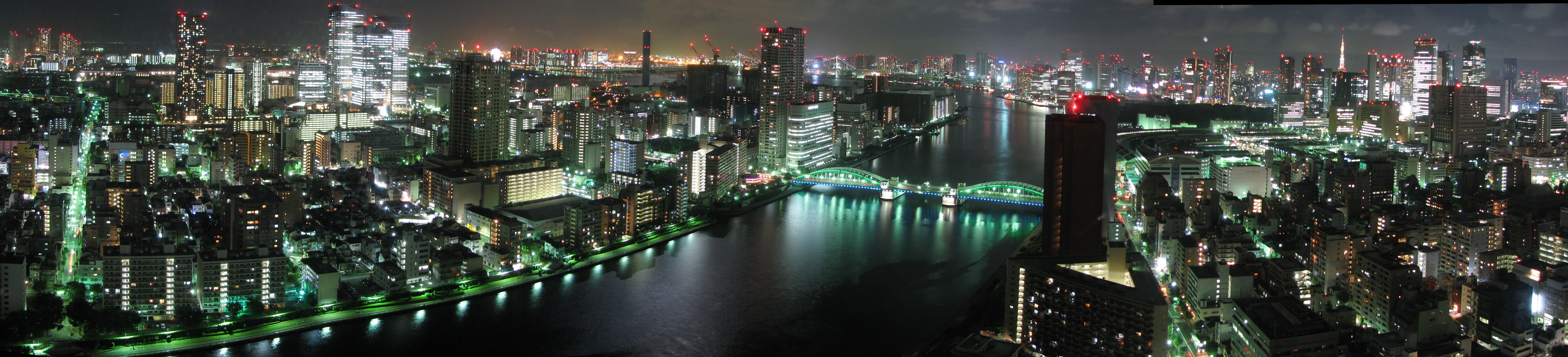 Created using AutoStitch. Camera: Canon S3 IS This panorama is similar to another one in my photostream: I found an additional photo to extend it further to the right. This new panorama was stitched from five photos taken from the 36th Floor of Hotel New Hankyu in St. Luke's Garden (Seiroka Garden) in Chuo-ku, Tokyo. This panorama is featured on This photo was used here: This photo is used here: This is used as one of the headers on This photo was the banner on SkyscraperCity XL on December 16, 2009